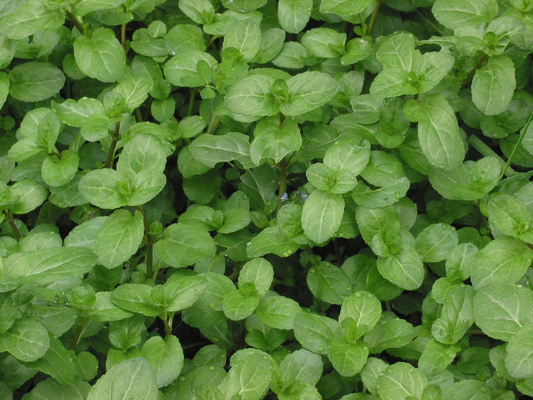 Veronica beccabunga plants